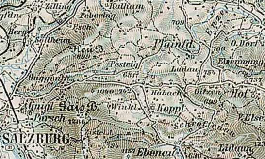 3rd Military Mapping Survey of Austria-Hungary - Salzburg; detail: Koppl